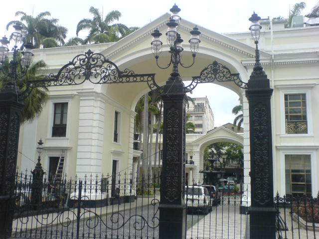 Venezuela National Congress in Caracas.